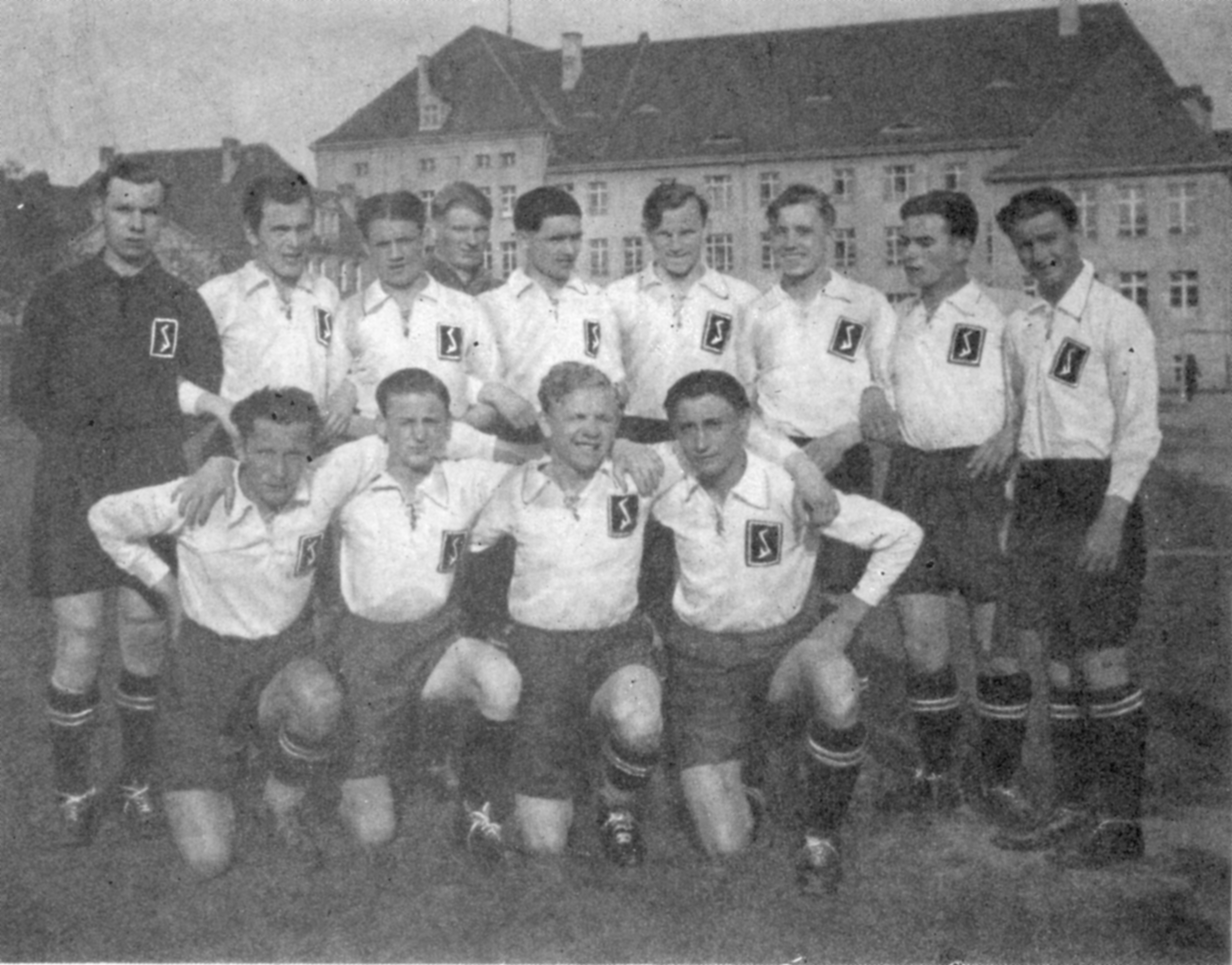 The representative football team of Union of Poles in Germany (Polish: Związek Polaków w Niemczech), for the Polonia Sport Games (Polish:Polonijne Igrzyska Sportowe) in Warsaw. Team members were pupils of Polish High School in Bytom (Gimnazjum Polskie w Bytomiu). Kneeling from the left: Augustyn Pielorz, Alojzy Morciniec, Antoni Ledwig, Jan Siejca. Standing from the left: Augustyn Pełka, Gerhard Spisla, Wilhelm Poloczek, Augustyn Jagło, Emil Śliwka, Jan Marszałek, Józef Wodarski, Paweł Kasperek, Jan Macioszek.